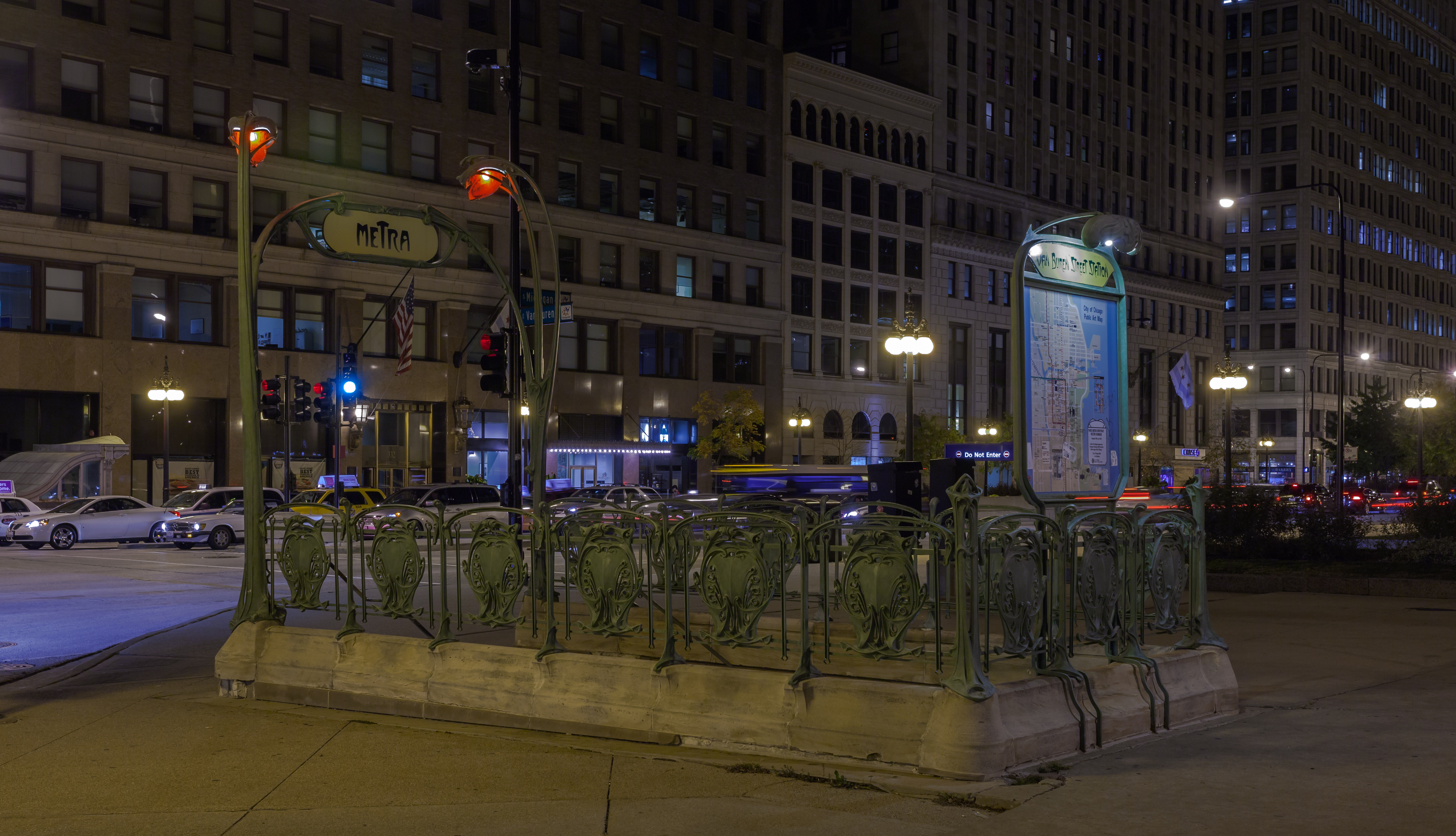 Van Buren Street Station, Chicago, Illinois, USA